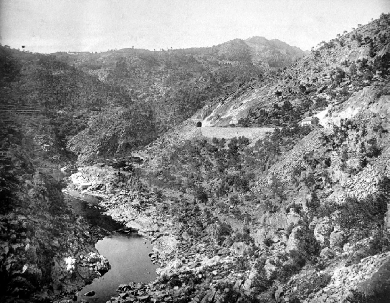 Tralhariz Railway Station, and Alvela Tunnel, later known as Tralhariz Tunnel, in the Tua Railway, in Portugal.